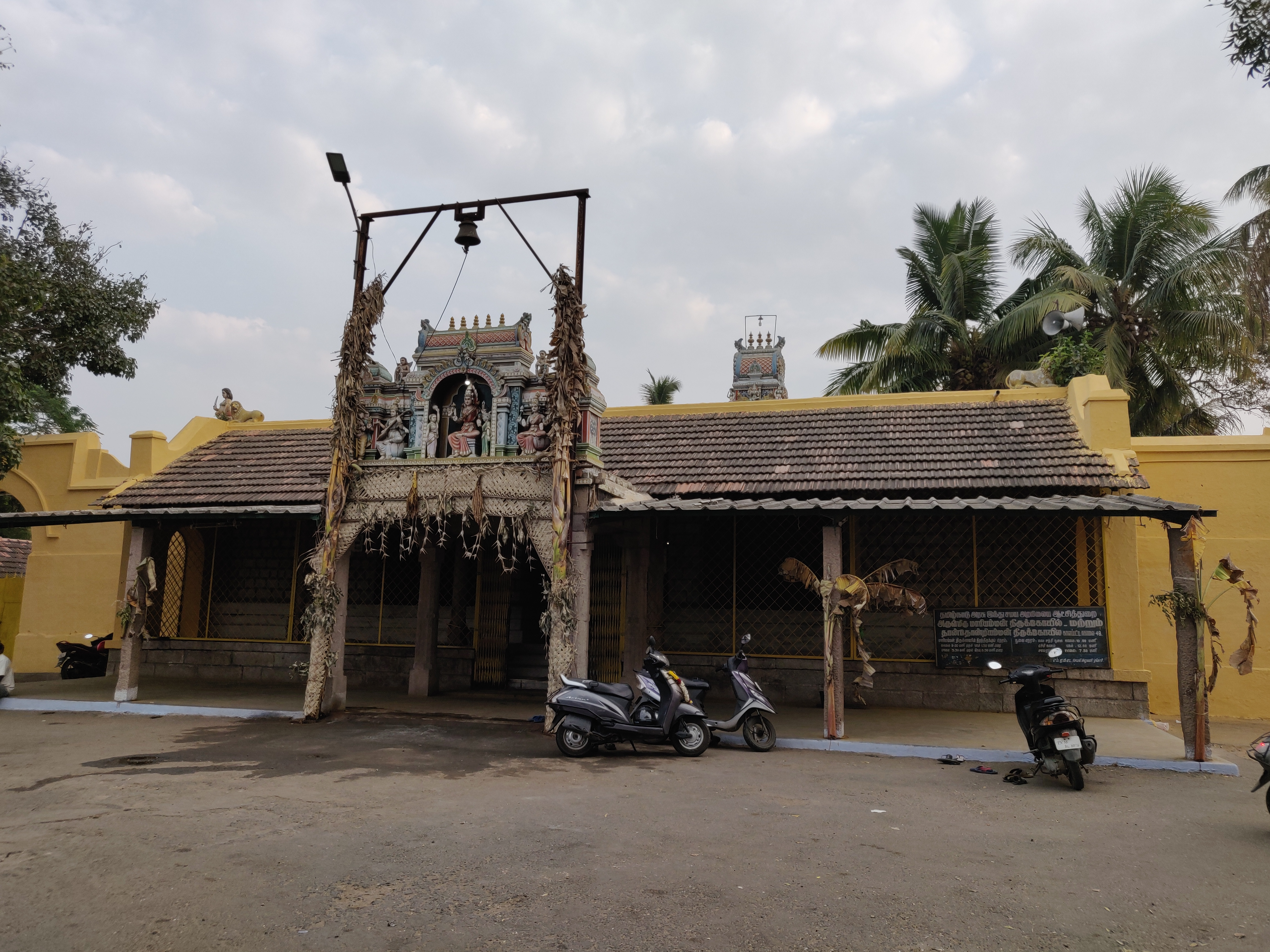 Kalipatti Mariyamman temple pictures